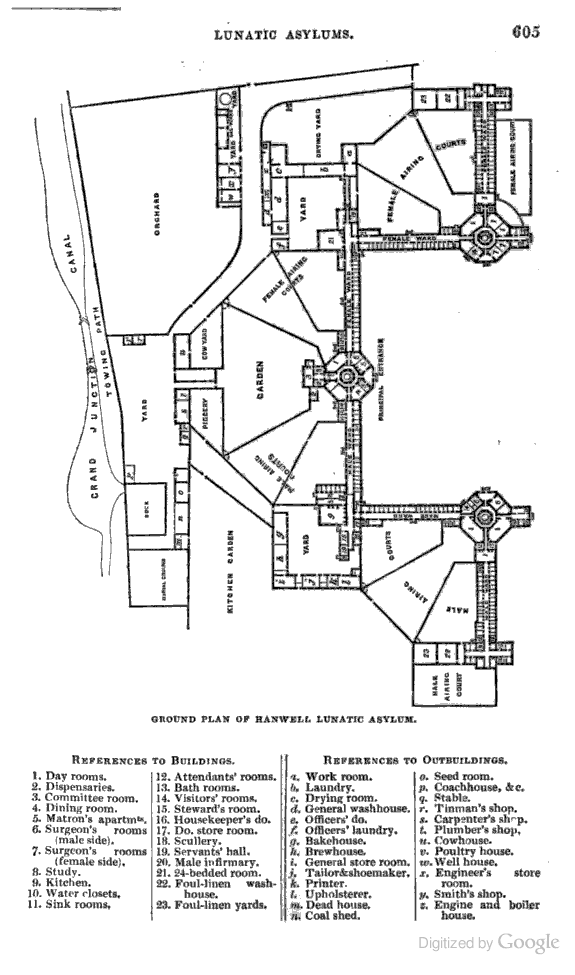 This image shows to lay out of departments and facilities at the Asylum at Hanwell in the 1850's Source: The Pictorial Handbook of London: Comprising Its Antiquities, Architecture, Arts, Manufacture. By John Weale; page 605. Pub H.G. Bohn 1854 Sourced and available online from Google Books.